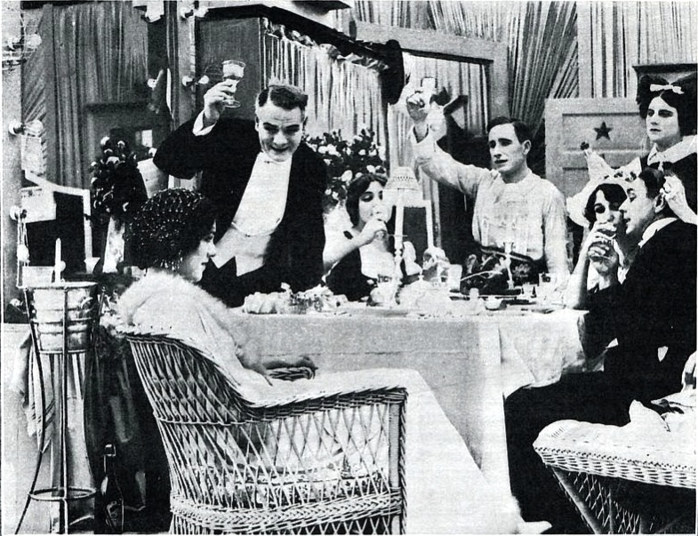 What's His Name is a 1914 American comedy-drama film directed by Cecil B. DeMille. The source magazine implies this is a scene from the film.